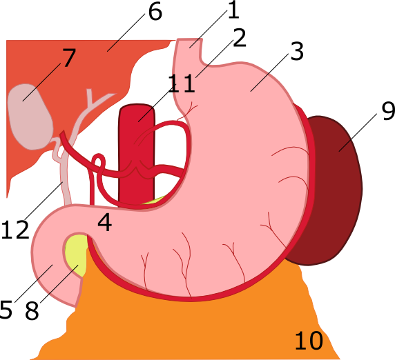 simple diagram of stomach